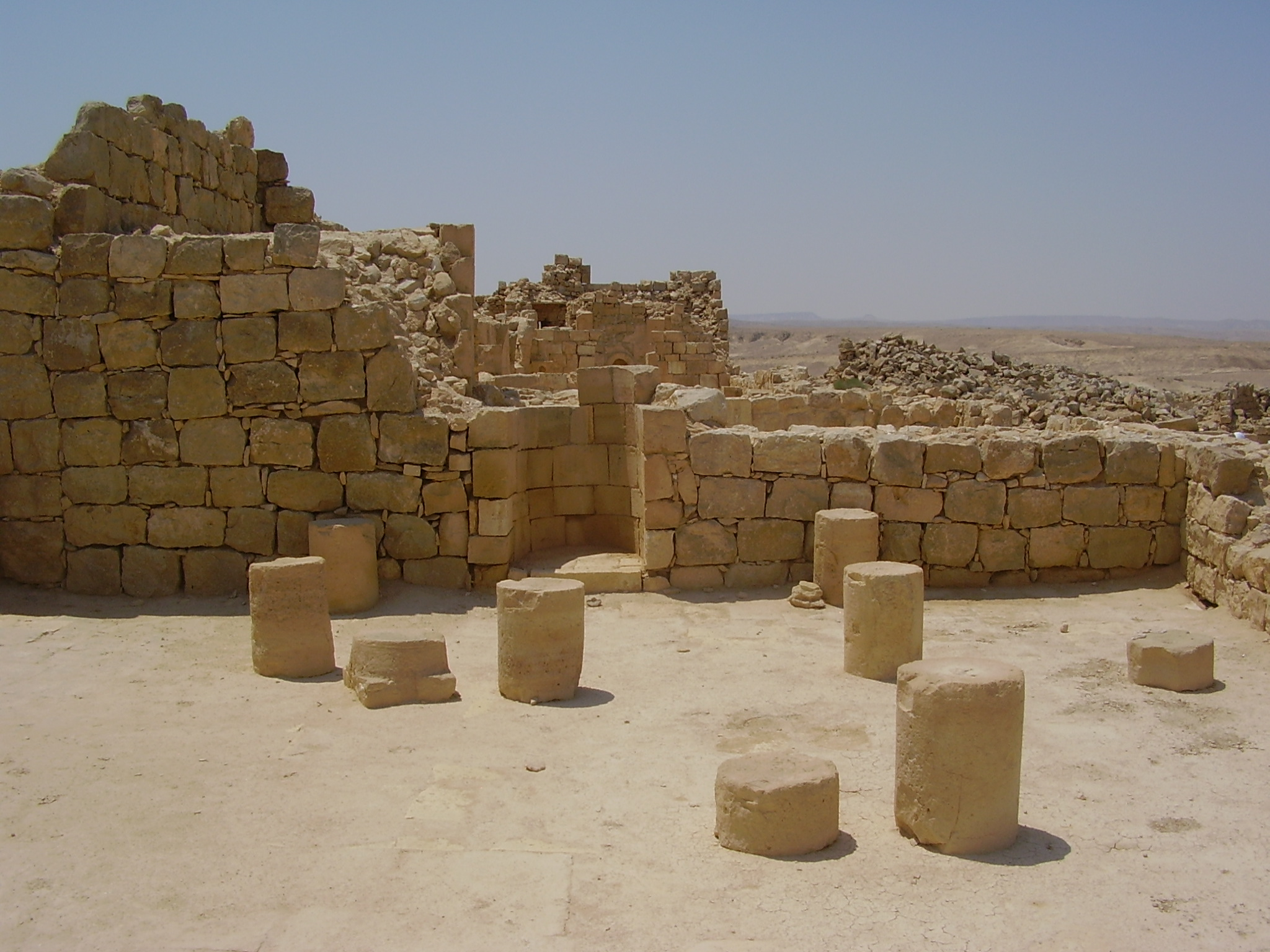 The mosque (and the mihrab) in Shivta